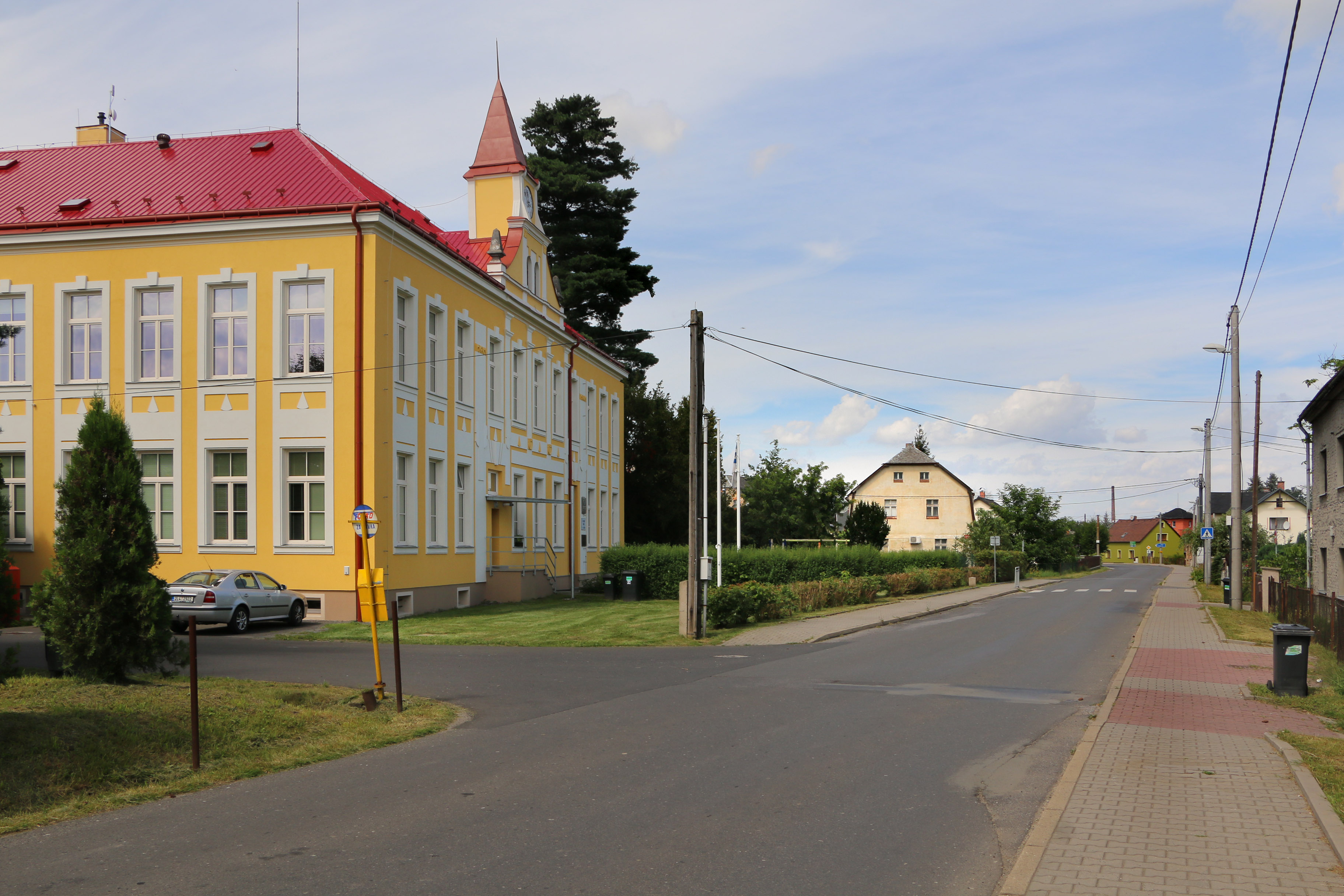 Elementary school in Donín, part of Hrádek nad Nisou, Czech Republic.